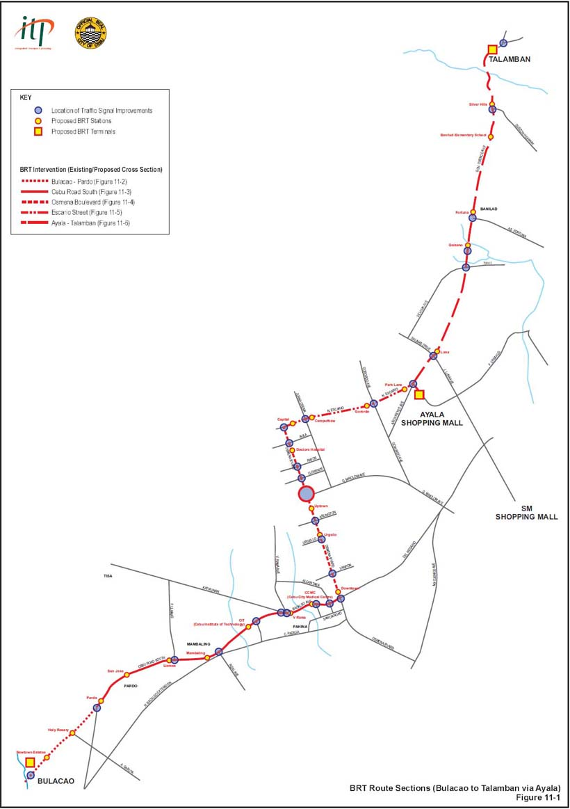 Route map and suggested stations for the first BRT line in Cebu, Philippines.